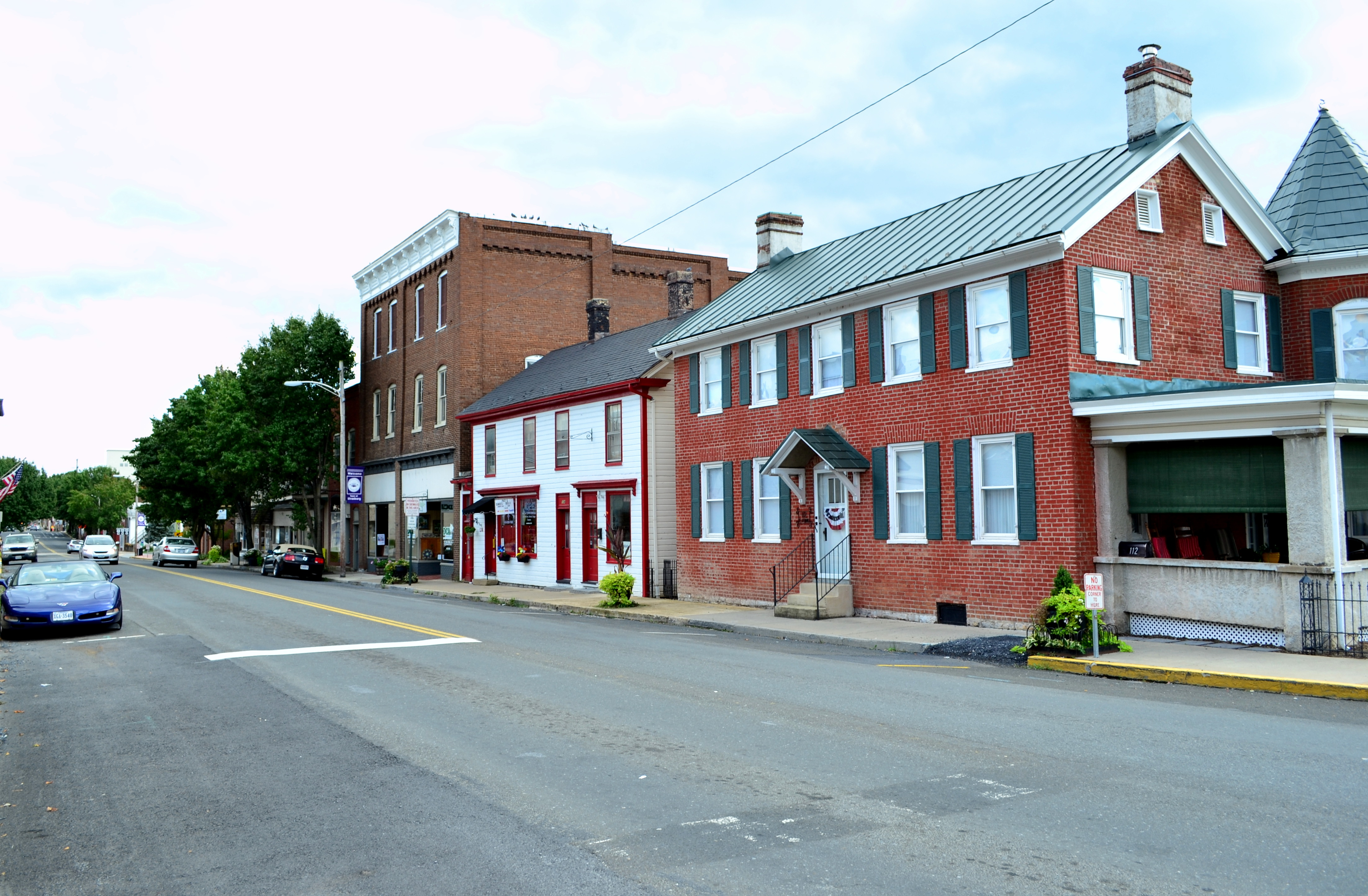 Strasburg Historic District, Roughly bounded by railroad tracks, 3rd, High, and Massanutten Sts. Strasburg